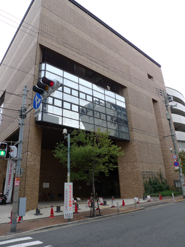 Photo of Shimanouchi Library in Osaka City